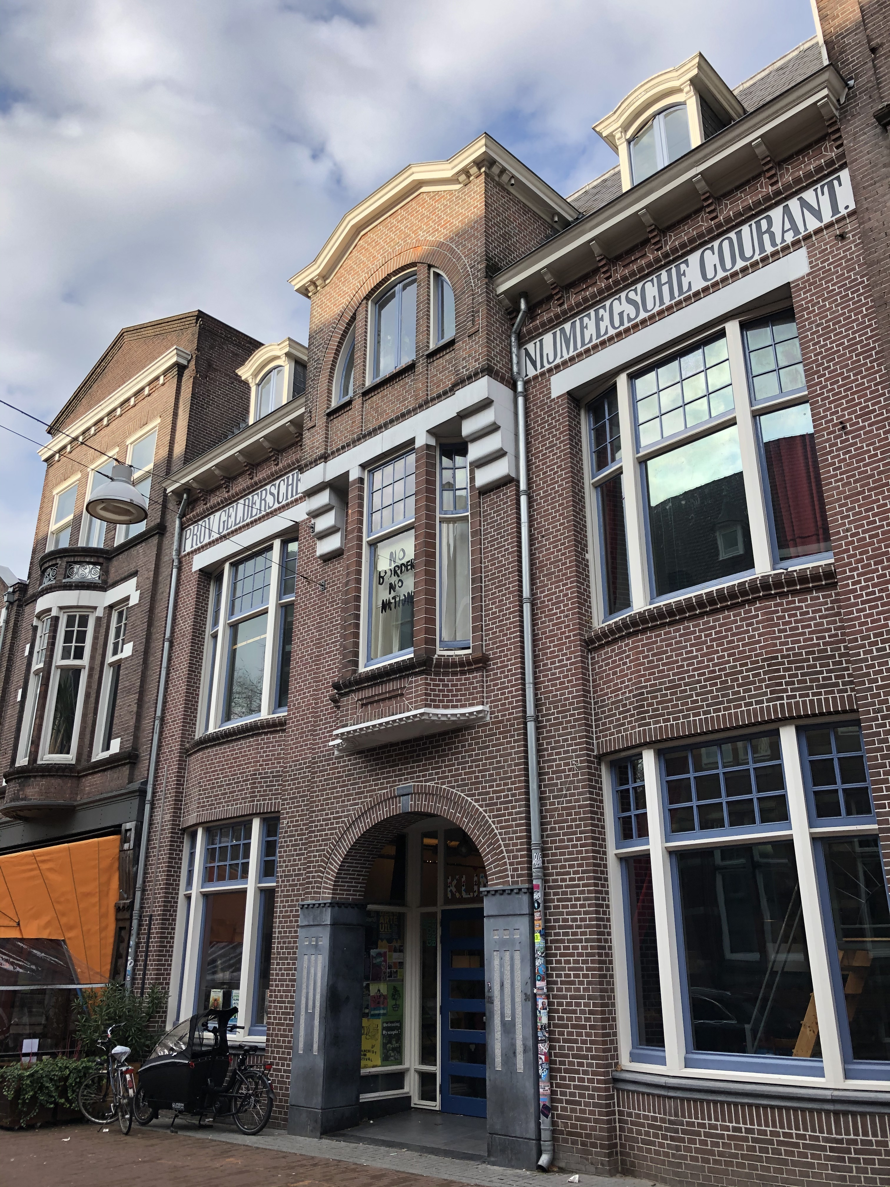 Alternative center "De Grote Broek" in Nijmegen, the Netherlands. Seen from the street side.